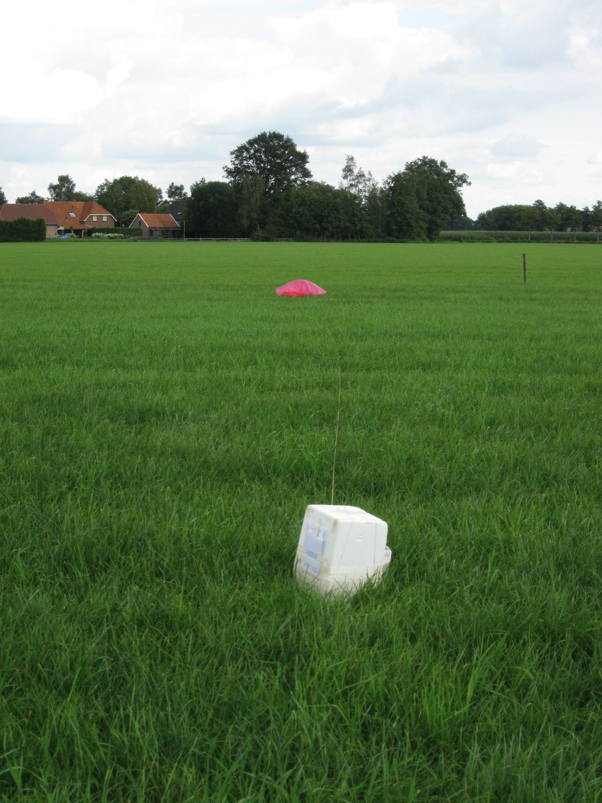 Ozonesonde landed on a parachute near the village of Zieuwent in The Netherlands on August 13, 2009, at 15:55 hrs. This ozonesonde was launched by the Royal Dutch National Weather Service at De Bilt on the same day at about 13:25 hrs. The sonde had reached a maximum altitude of more than 33,000 meters. Dimensions: 19 x 19 x 26 cm. Weight: ~500 g.